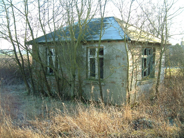 Former Stravithie airfield watch office. This dilapidated building (and a tractor shed next to it) are all that is left to mark where, from 1941 till 1945, a RAF satellite landing ground was in use. Hurricanes, Wellingtons and even four-engine bombers like Halifaxes once landed and took off from the relatively small field behind and to the left of this building.